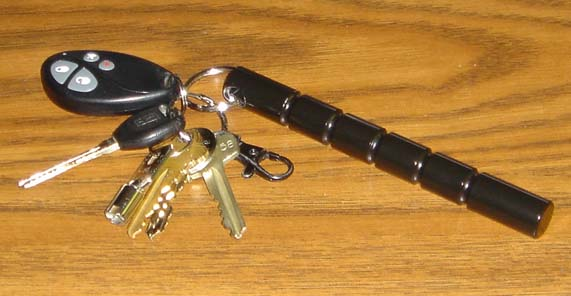 I took this picture on December 17th, 2006. It may be used by any person for any purpose. ~Chriszuma